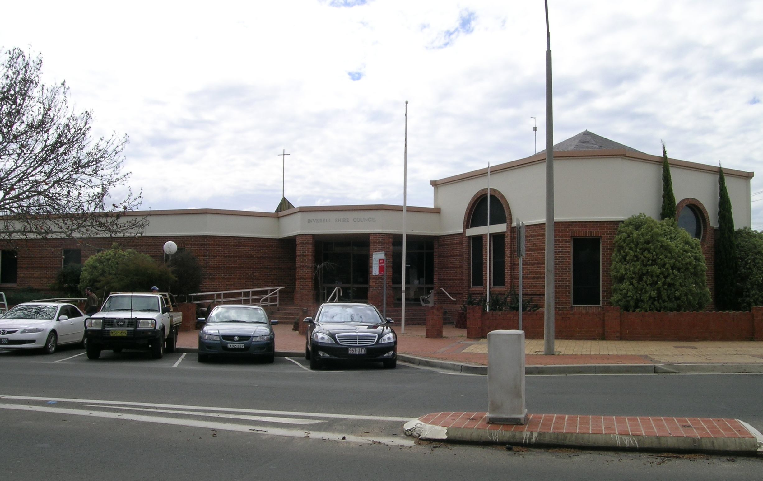 Inverell Shire Council chambers, Otho Street, Inverell, NSW.